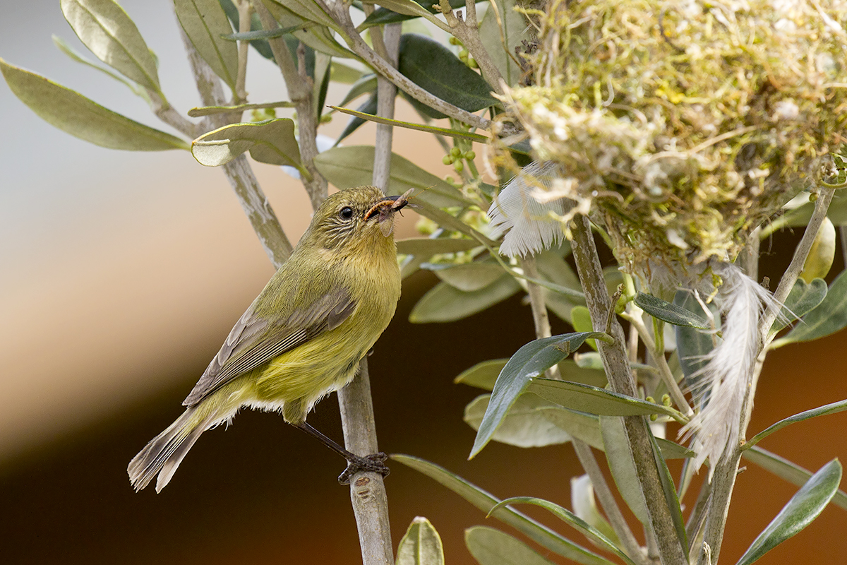 Clydesdale, Vic. Feeding their young in a nest in a friend's yard.